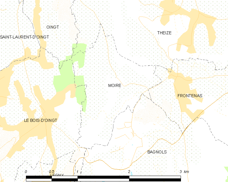 Map of French municipality